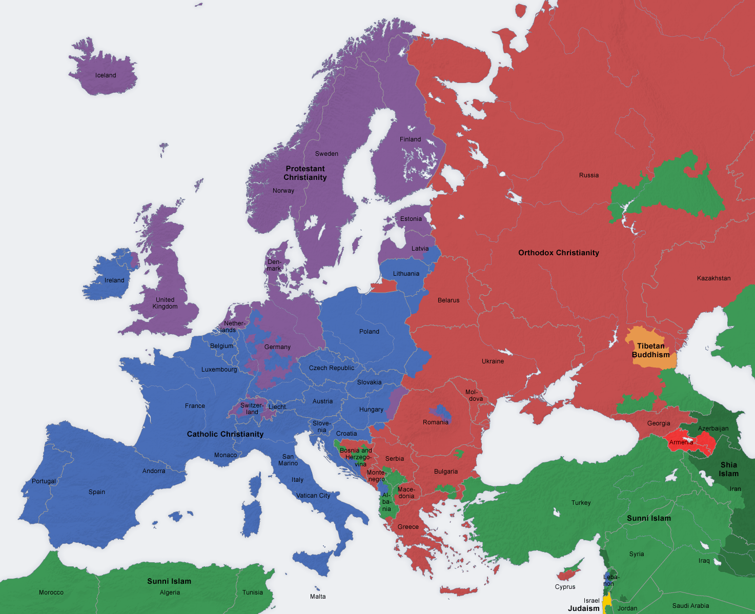 Religions in Europe, map en. See File:Europe religion map.png for details.Legend: Catholic Christianity Protestant Christianity Orthodox Christianity Oriental Orthodox Christianity Sunni Islam Shia Islam Tibetan Buddhism Judaism